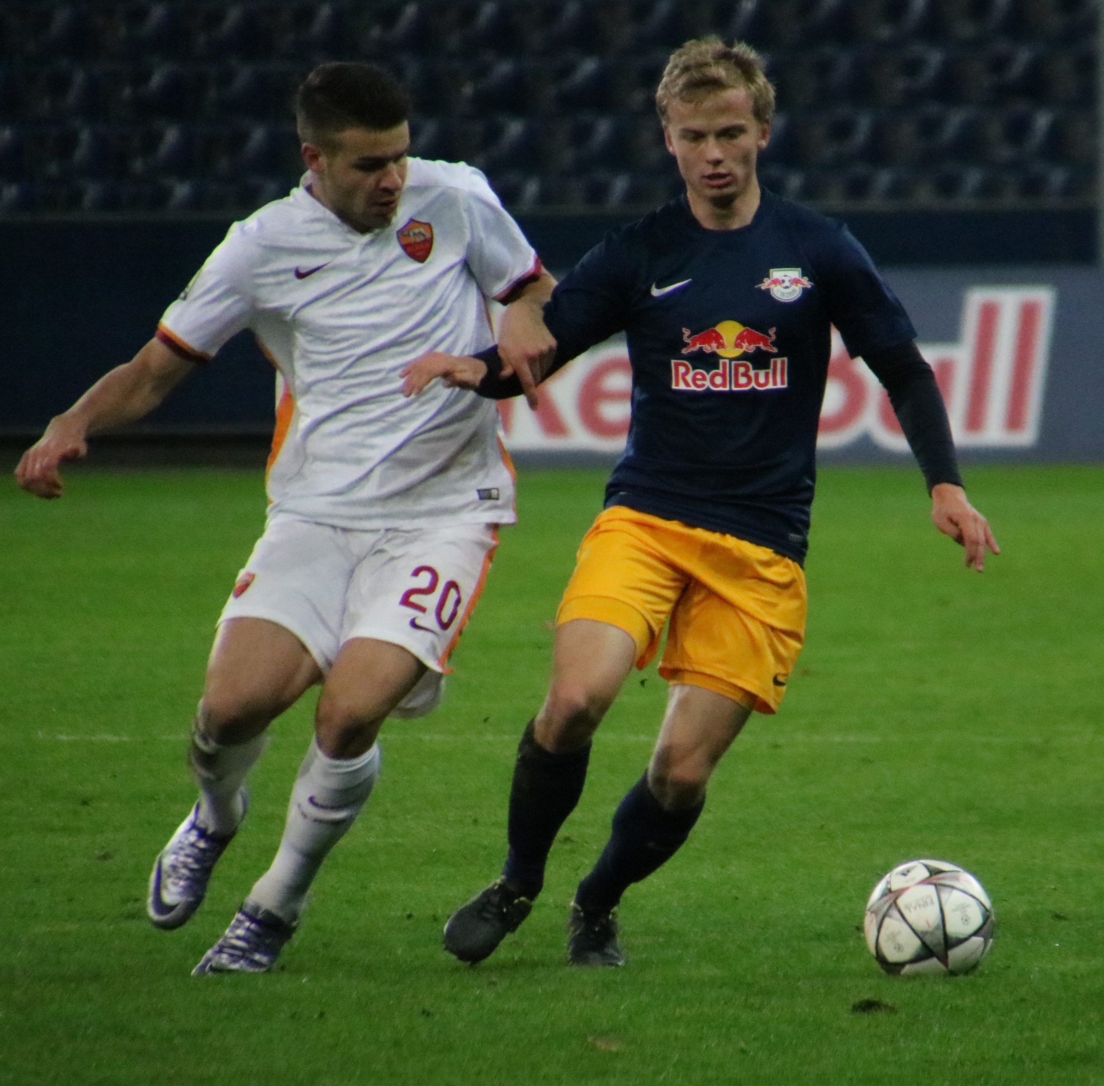 Marco Tumminello (L) and Michael Switil (R)